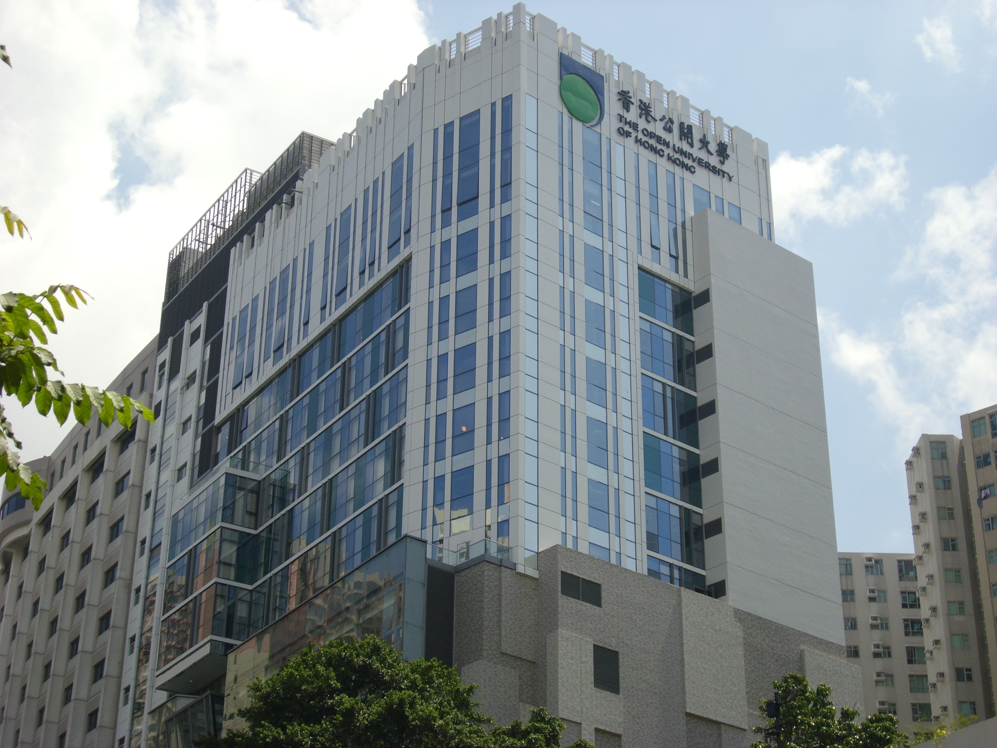 Second phase of the campus of Open University of Hong Kong